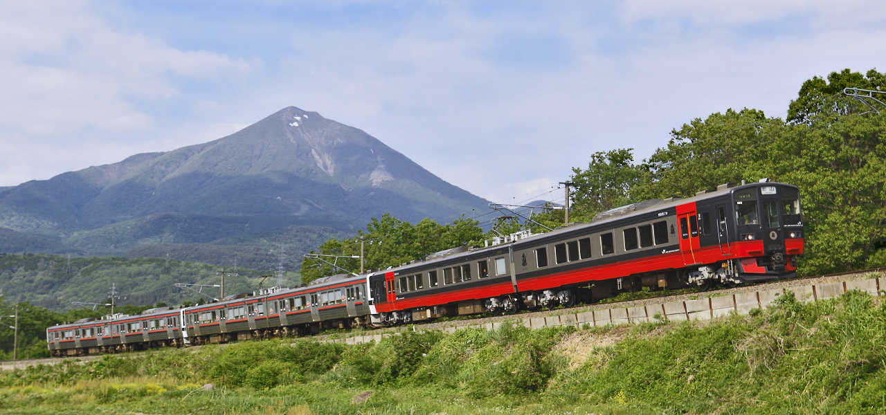 The JR East 719 series "Fruitea" EMU on the Ban'etsu West Line between Bandaimachi and Okinashima stations